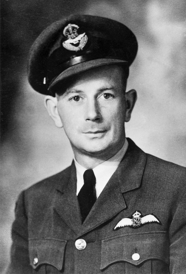 Portrait of Lloyd Allan Trigg RAF, awarded the Victoria Cross: South Atlantic, 11 August 1943.